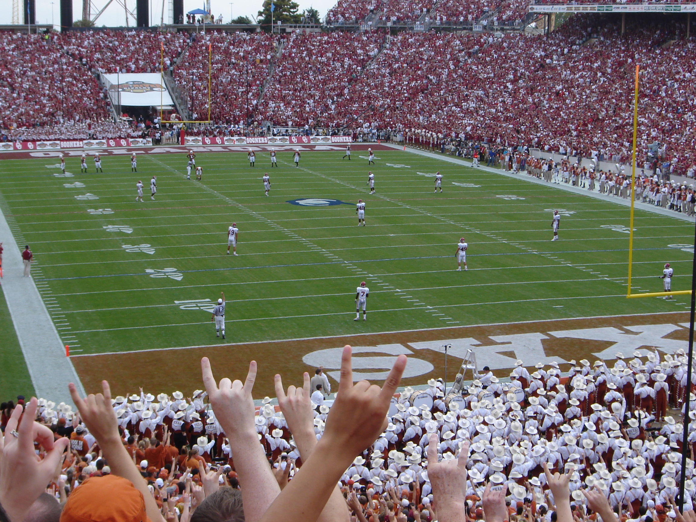 The 2007 Texas Longhorn football team kicksoff to the University of Oklahoma Sooners at the Red River Shootout 2007.